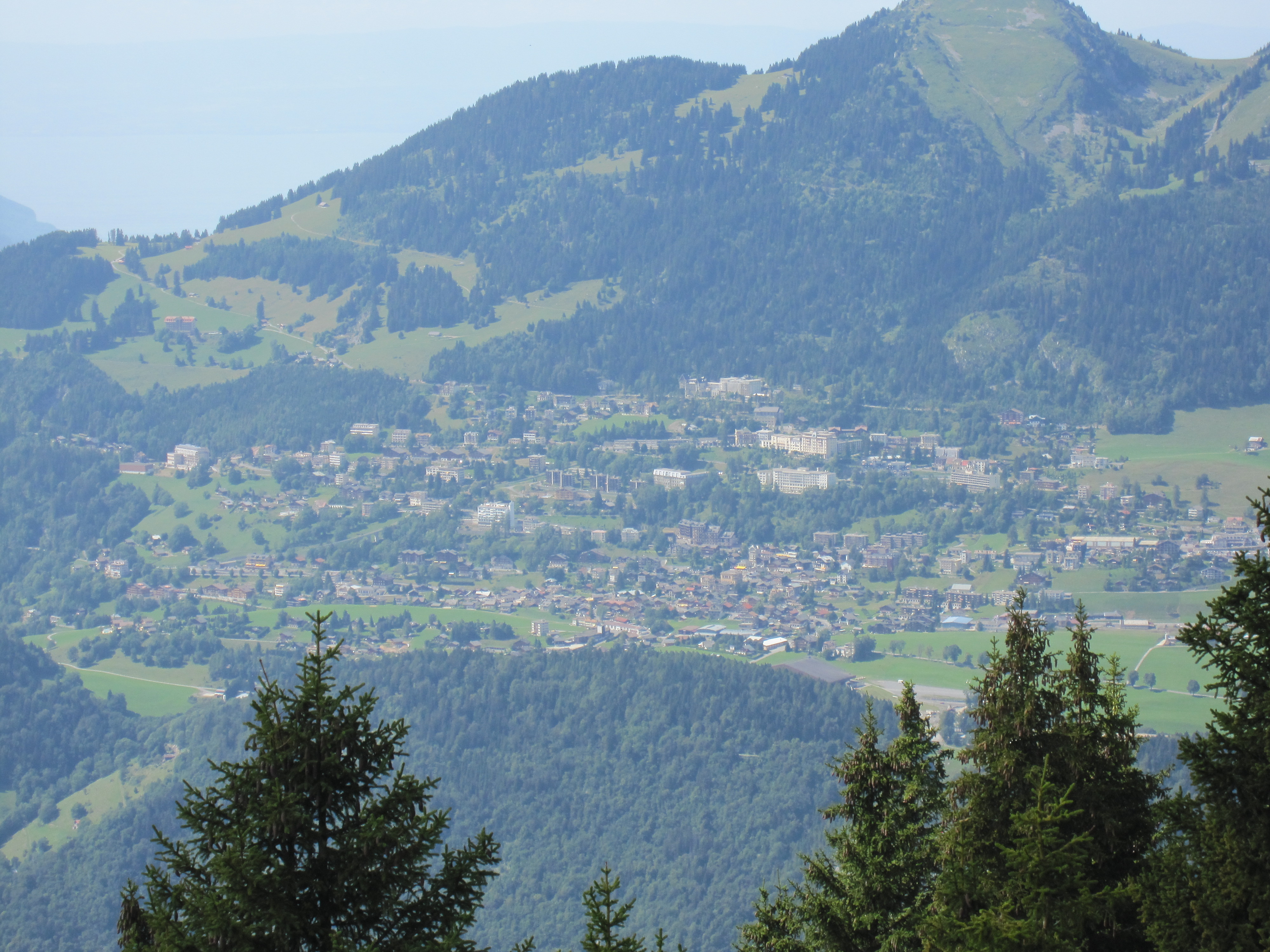 Leysin village in summer seen from Roc d'Orsey, Villars-sur-Ollon